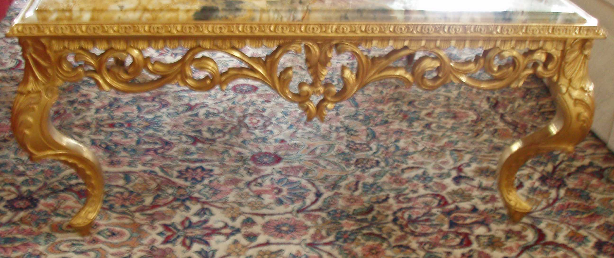 Low one of a kind marble topped table with cabriole legs, sitting on Lavar Kerman Carpet